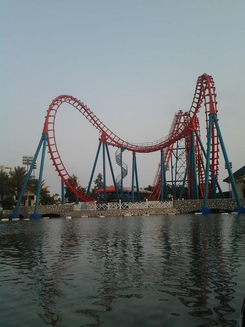 Al Shallal Roller Coaster as seen from the AlShallal Marine Lake